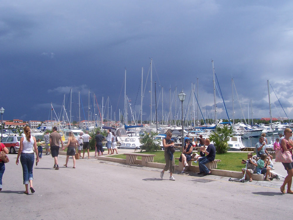 Street Vodice, Croatia.